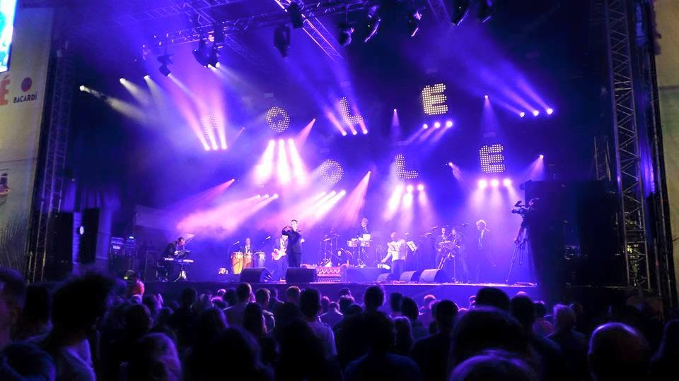 Ray Lugo & The Boogaloo Destroyers performing live onstage at The Gentse Feesten in Ghent, Belgium July 2015